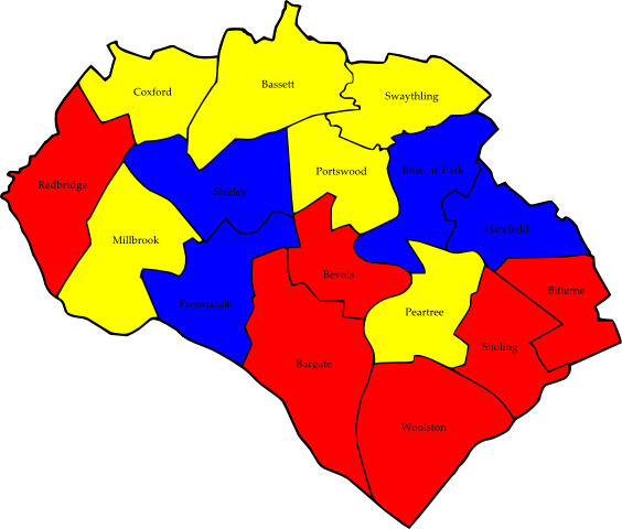 A map of the results of the 2006 Southampton Council election. Colour legend by wards won: Liberal Democrats Labour party Conservative party